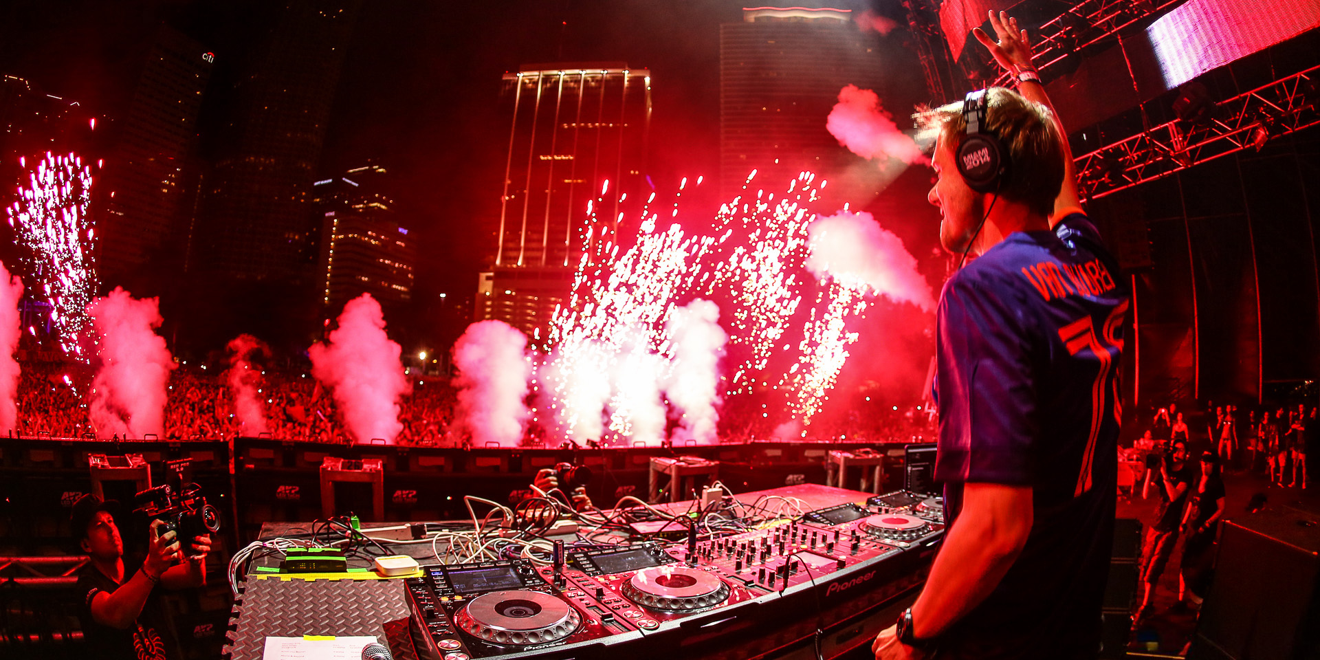 Armin van Buuren performing at Ultra Music Festival 2014.